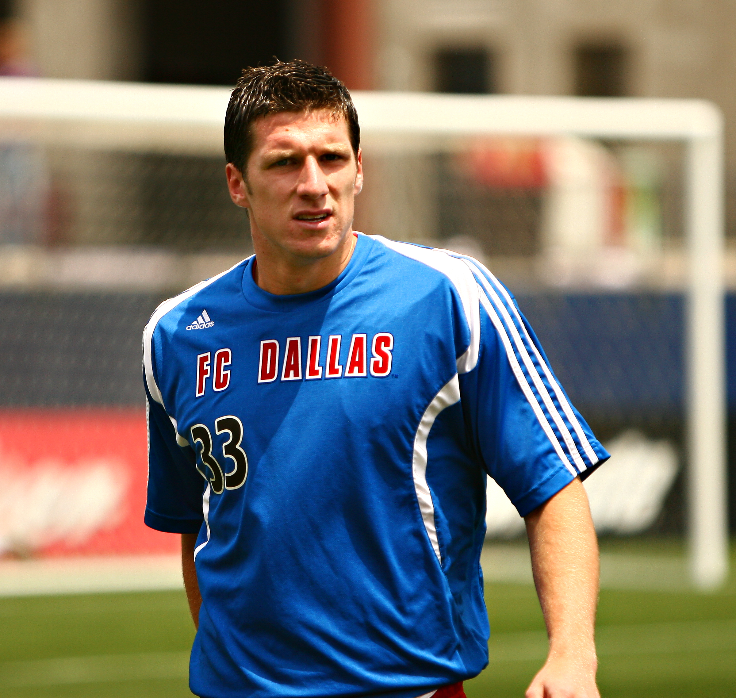 Kenny Cooper of FC Dallas warming up